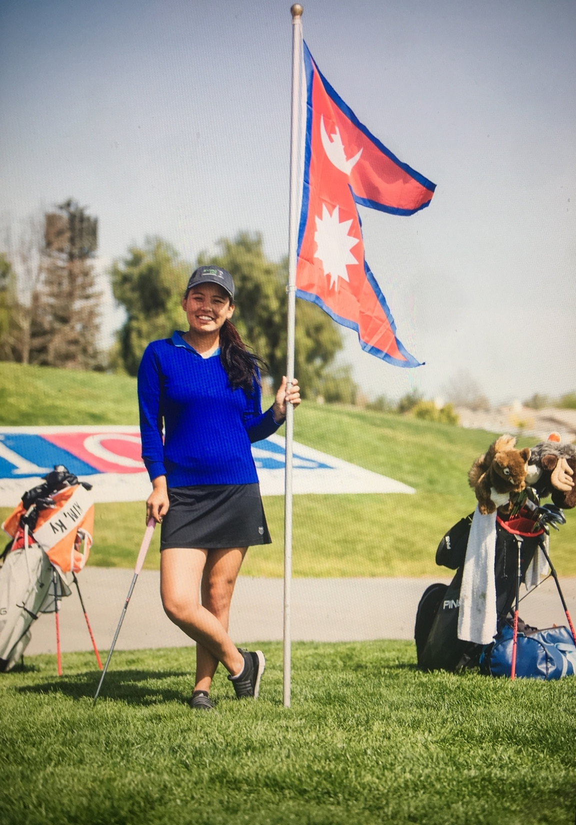 Nepali golfer with National flag.